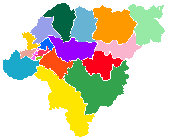 Subdivision of Harbin